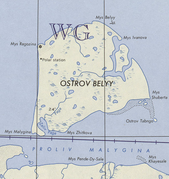 part of original map, covering Bely Island off Yamal Peninsula, Russian Arctic